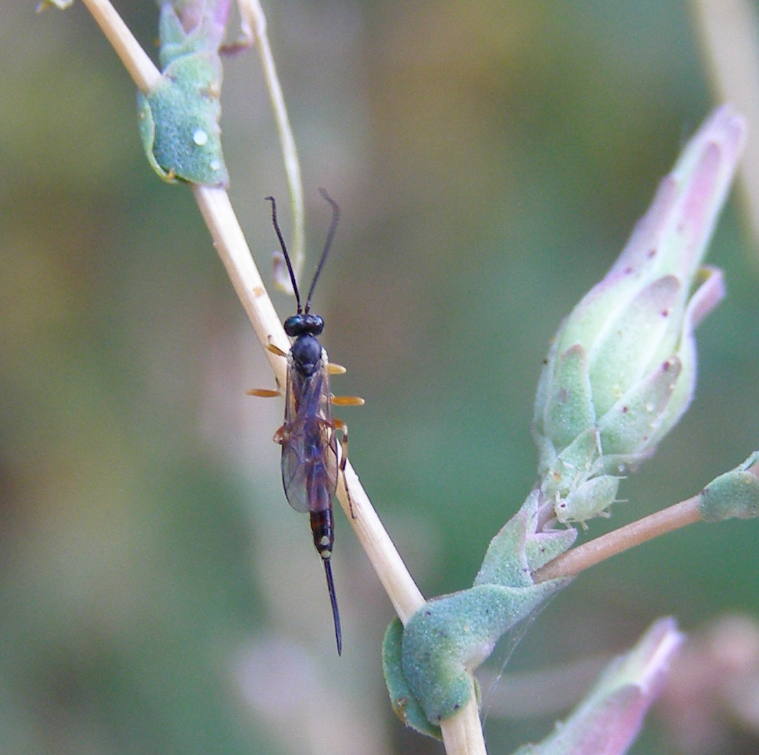 Campopleginae F asleep on Lactuca serriola Zwakhals ID